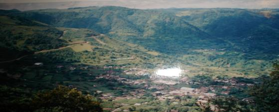 chachahuantla